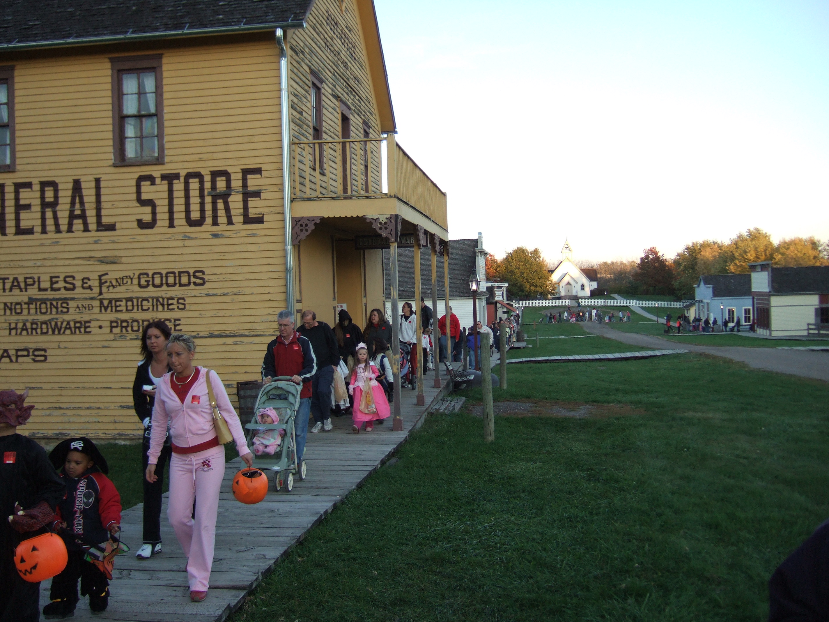 Living History Farms in Urbandale (suburb of Des Moines), Iowa, United States. Town of Walnut Hill, seen during the 2007 Halloween event.